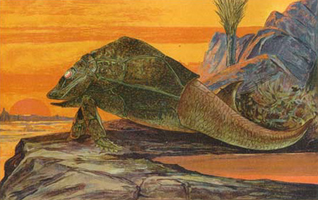 Tiere der Urwelt (Creatures of the Primitive World) Series 1 and 2 Illustrated by F. John (born/died?) Printed 1902 and 1906(?) Germany Series 1 Card 30 Pterichthys